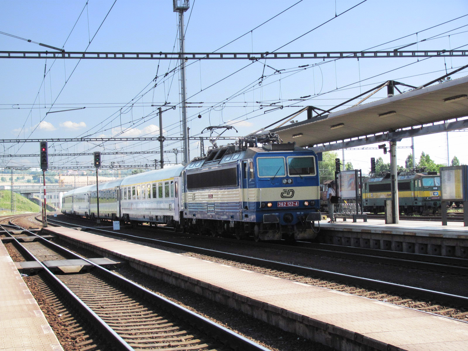 Train with ČD Class 362 in Otrokovice